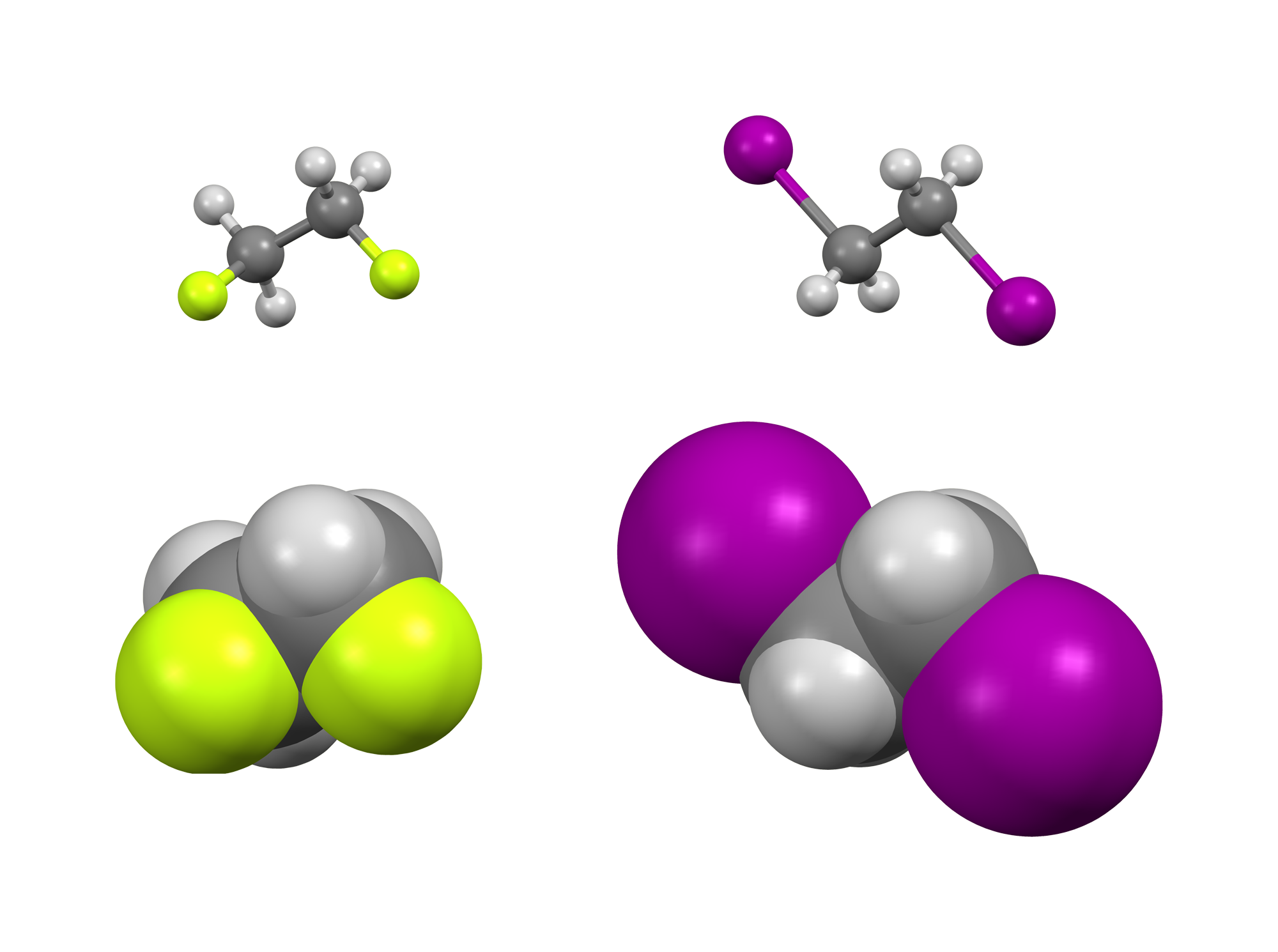 Ball-and-stick and space-filling models of the molecules 1,2-difluoroethane (C2H4F2) and 1,2-diiodoethane (C2H4I2), highlighting their different conformations. While 1,2-difluoroethane adopts a gauche conformation due to the gauche effect, 1,2-diiodoethane adopts an anti conformation (c.f. anti-periplanar) due to steric effects, specifically Van der Waals strain. The molecular structures are taken from the crystal structures reported in J. Chem. Crystallogr. (2003) 33, 969-975: CSD entry AMECIE for 1,2-difluoroethane CSD entry ZZZFHE01 for 1,2-diiodoethane. Colour code: Carbon, C: grey Hydrogen, H: white Fluorine, F: yellow-green Iodine, I: purple Model manipulated and image generated in CCDC Mercury 3.8.